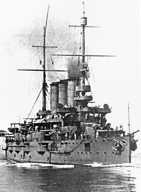 SMS Erzherzog Friedrich, battleship of Austro-Hungarian Navy, Erzherzog-Class 1903